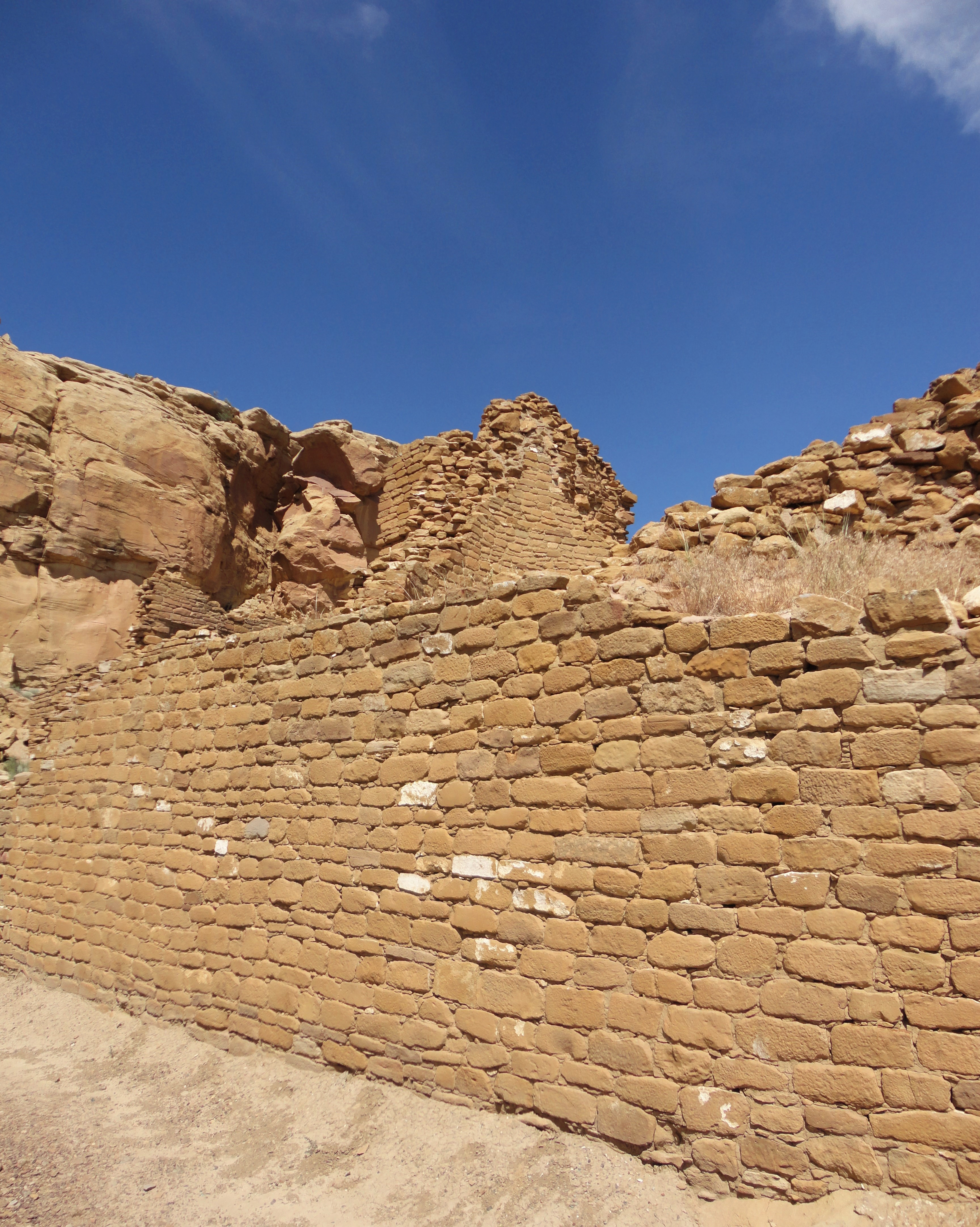 A portion of a McElmo style masonry wall at the Ancestral Puebloan great house Kin Kletso, in Chaco Culture National Historical Park, New Mexico.